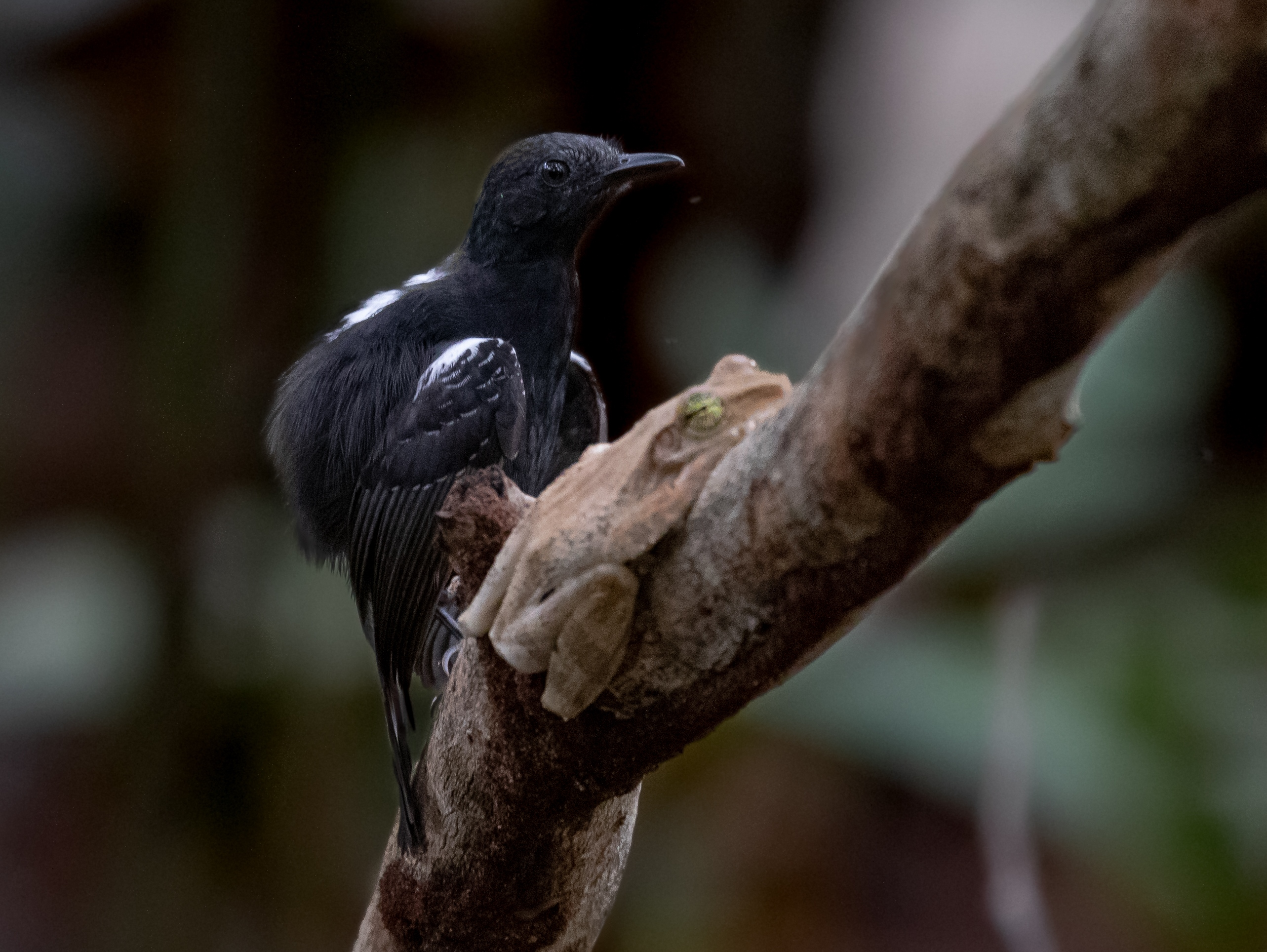 Black antbird (macho), Careiro, Amazonas, Brazil